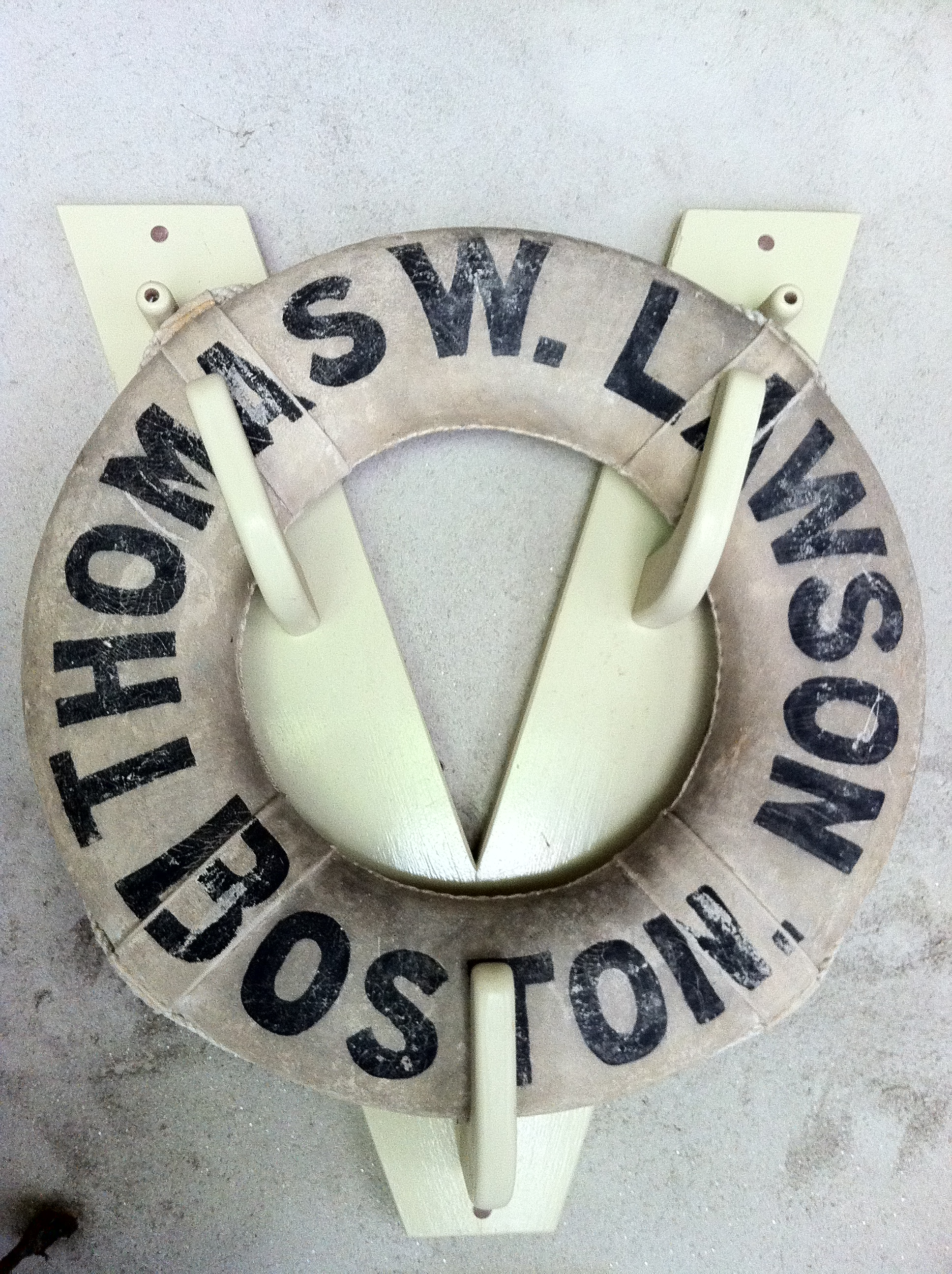 The American schooner Thomas W. Lawson was the largest sailing vessel ever built, as an attempt to show that sail could still compete in the age of steam. In 1907 the Lawson was carrying 2,225,000 gallons of paraffin oil across the Atlantic when a storm forced it to shelter in Broad Sound, off St. Agnes, Isles of Scilly. Worsening conditions drove the ship onto Shag Rock, west of Annet, where it capsized. Most of the crew of 18 drowned. In the Valhalla Museum in Tresco Abbey Gardens, Isles of Scilly.